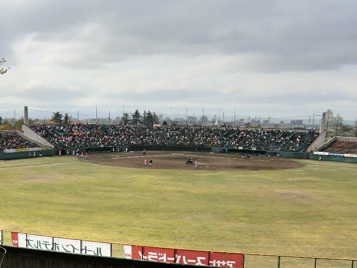 Nagaoka Yūkyūzan Baseball Stadium, Nagaoka, Niigata Prefecture, Japan cropped from File:Nagaoka Yukyuzan Baseball Stadium 03.jpg